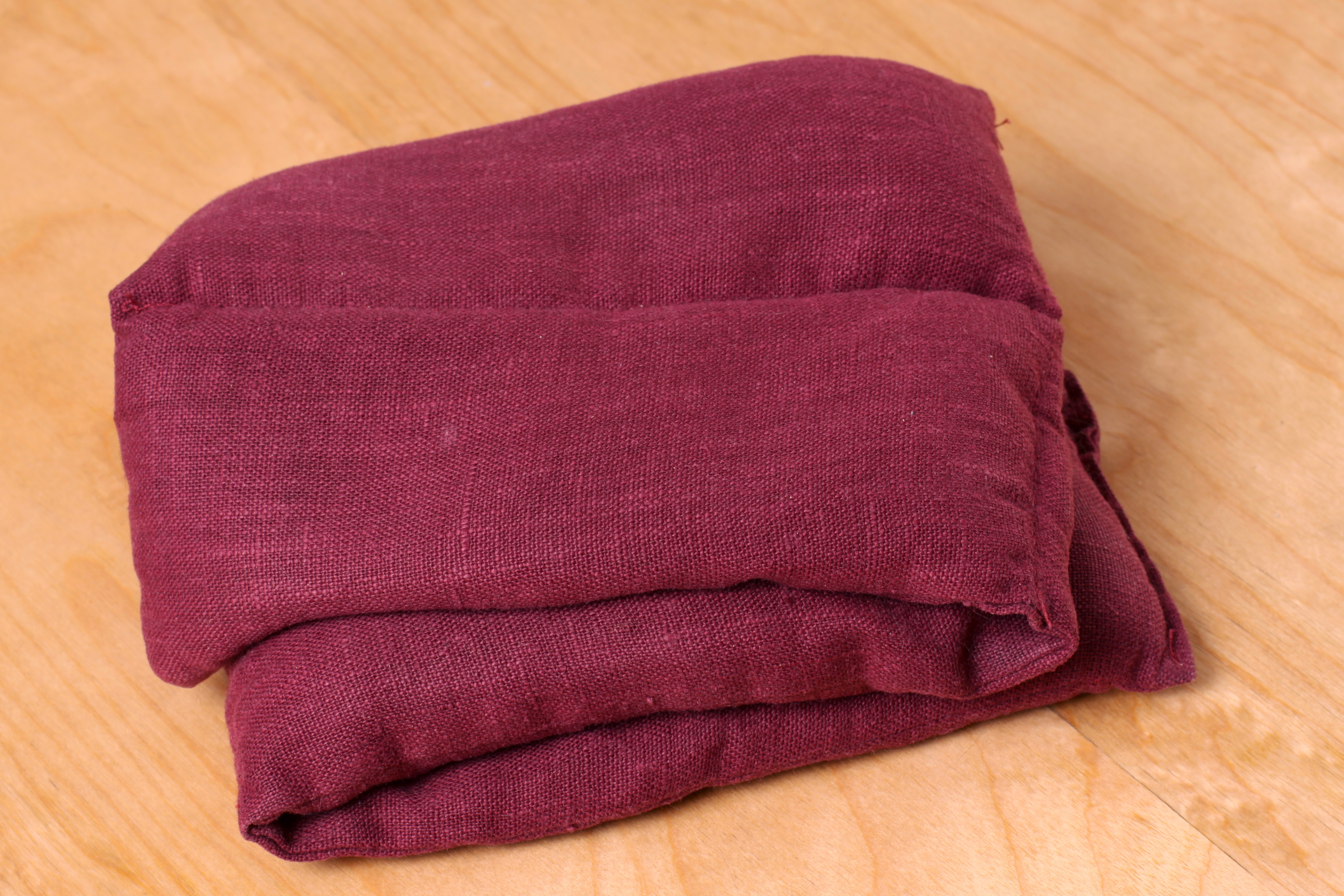 A wheat pillow